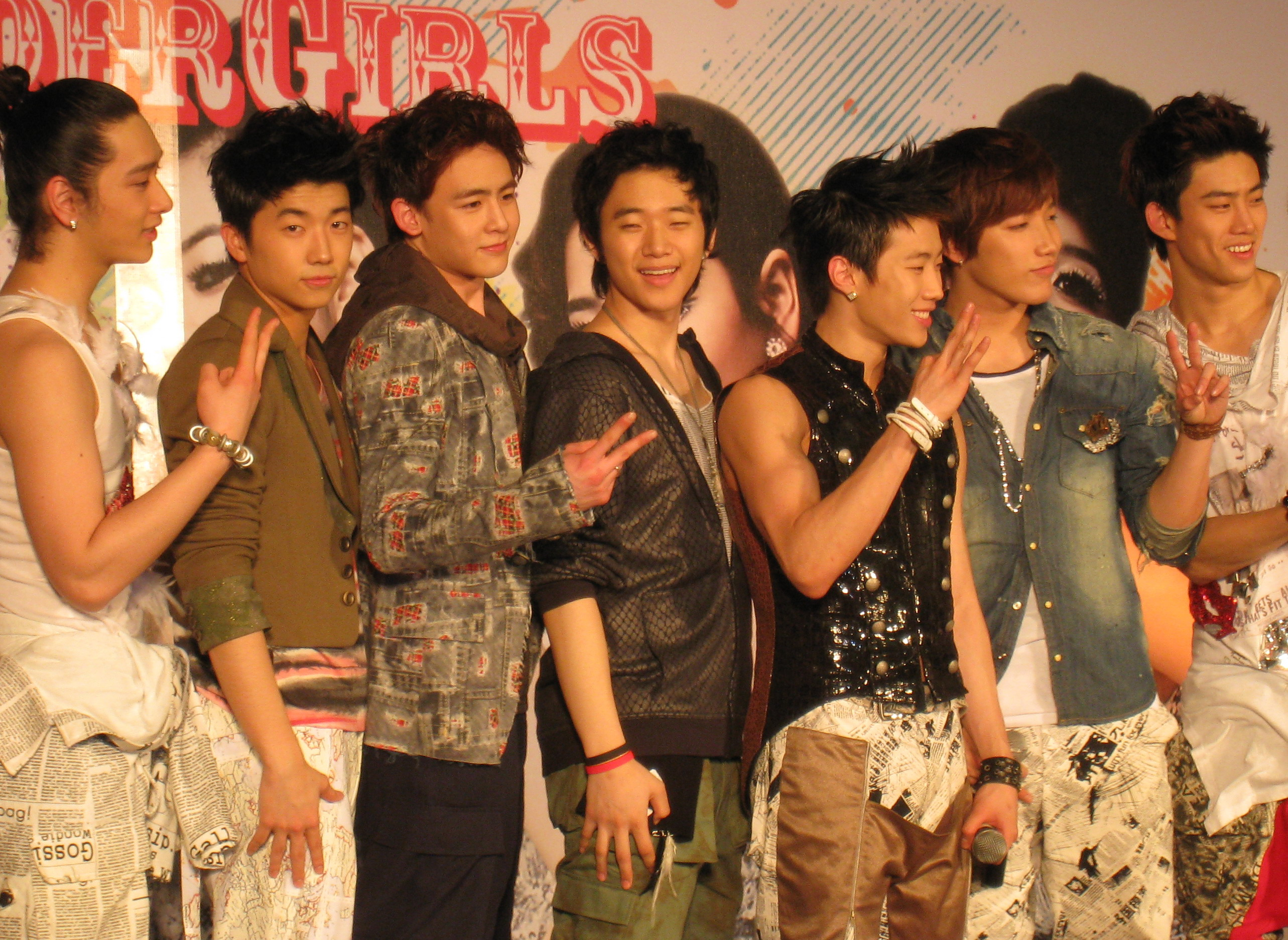 2PM at press conf. of Wonder Girls The First Wonder Live In Bangkok.